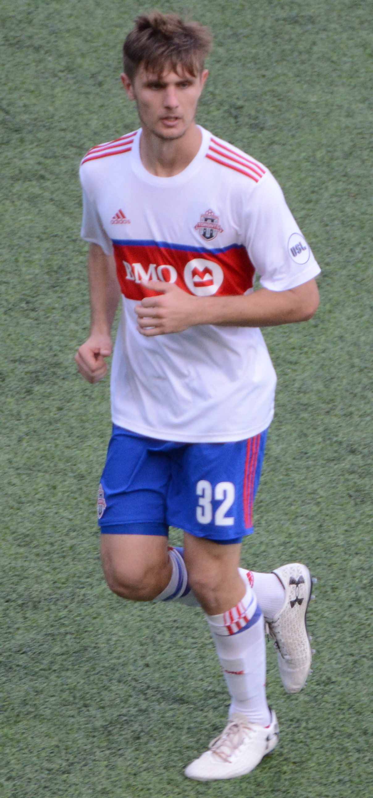 Brandon Aubrey Taken during a match between FC Cincinnati and Toronto FC II at Nippert Stadium in Cincinnati, USA on May 27, 2017.